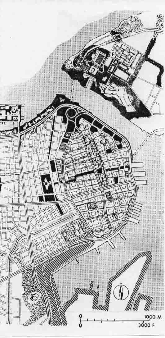 Havana Plan Piloto, plan of the intervention in Old Havana, Sert Master Plan.